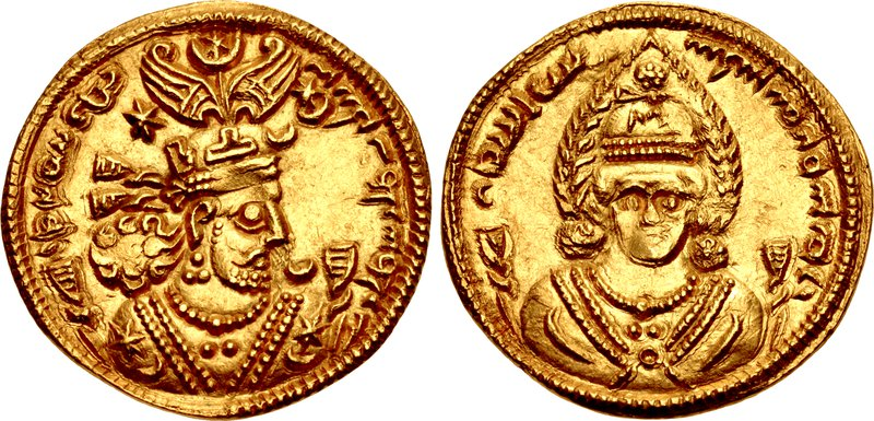 SASANIAN KINGS. Husrav (Khosrau) II. AD 591-628. AV Light Dinar (23mm, 4.50 g, 3h). Uncertain mint. Dated RY 21 (AD 610). GDH ’pzwt’ in Pahlavi to left, hwslwd mlk’n mlk’ in Pahlavi to right, bust right, wearing mural crown with frontal crescent and two wings surmounted by star-in-crescent; fillet over each shoulder, crescent over right shoulder, crown flanked by star and star-in-crescent / Facing bust of Anahit in flame nimbus; y’cwysty (date) in Pahlavi to left, ’yl’n ’pzwt hwytk’ in Pahlavi to right. Malek, Khusrau, 6-7; Göbl type III/4 (pl. 14, 217); Mochiri 916; Paruck –; Alram 919; Saeedi AV95 (same dies); Sunrise 986. EF, lightly toned, hint of double strike. Rare.